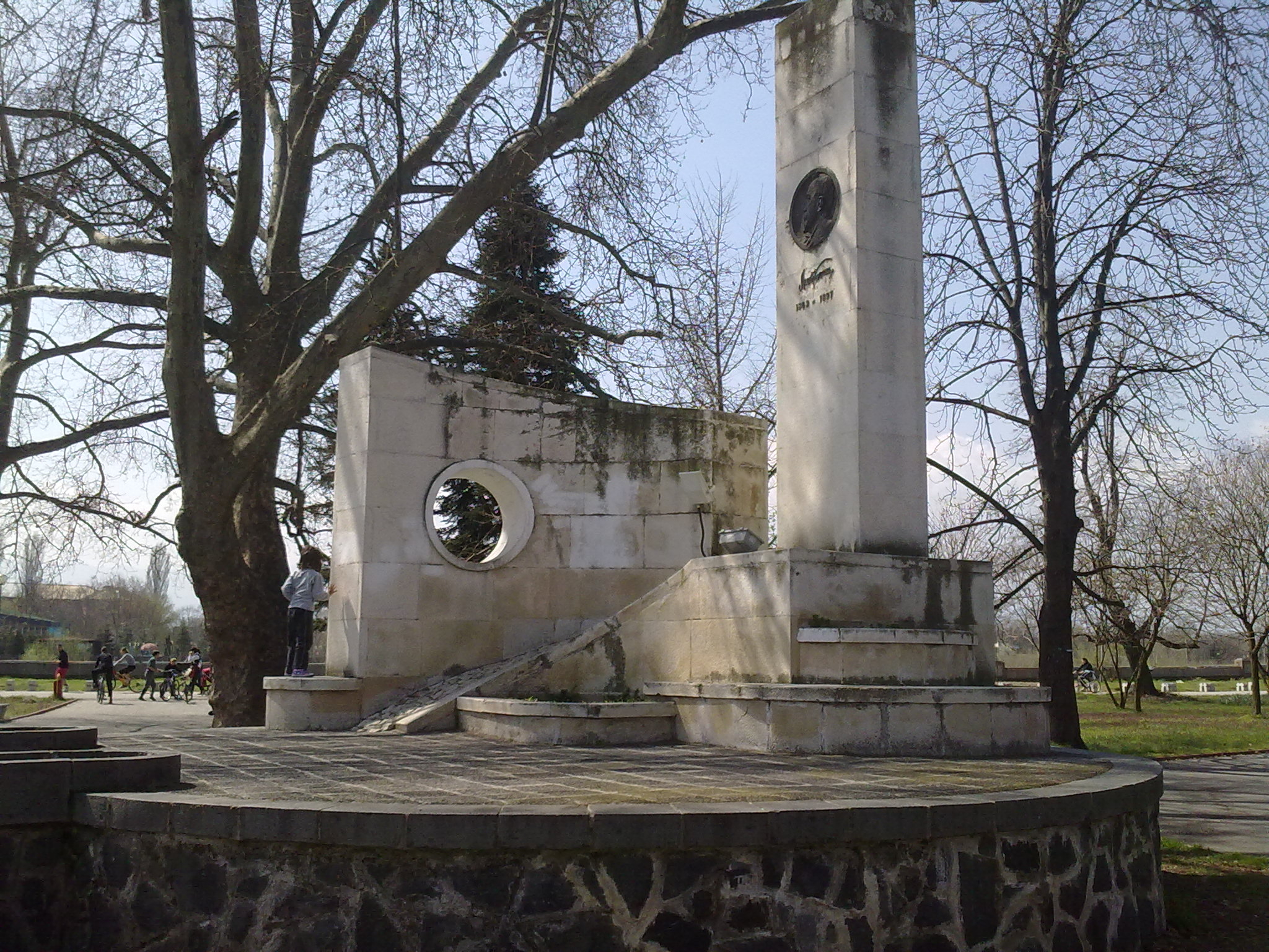 Aleko Konstantinov monument, Pazardzhik, Bulgaria.